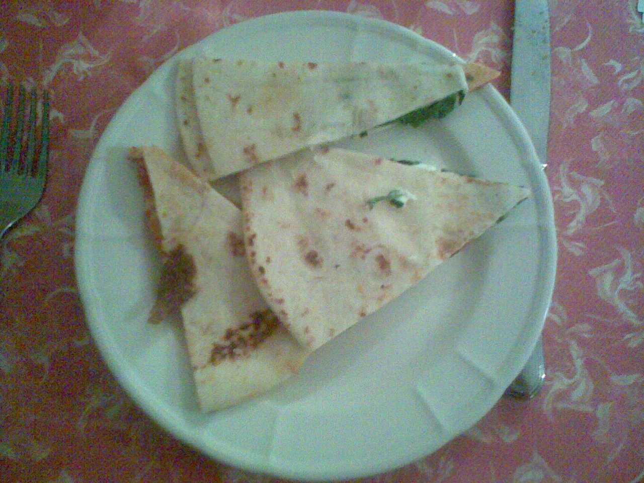 italian food